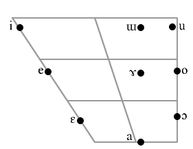 IPA vowel chart for Thai.